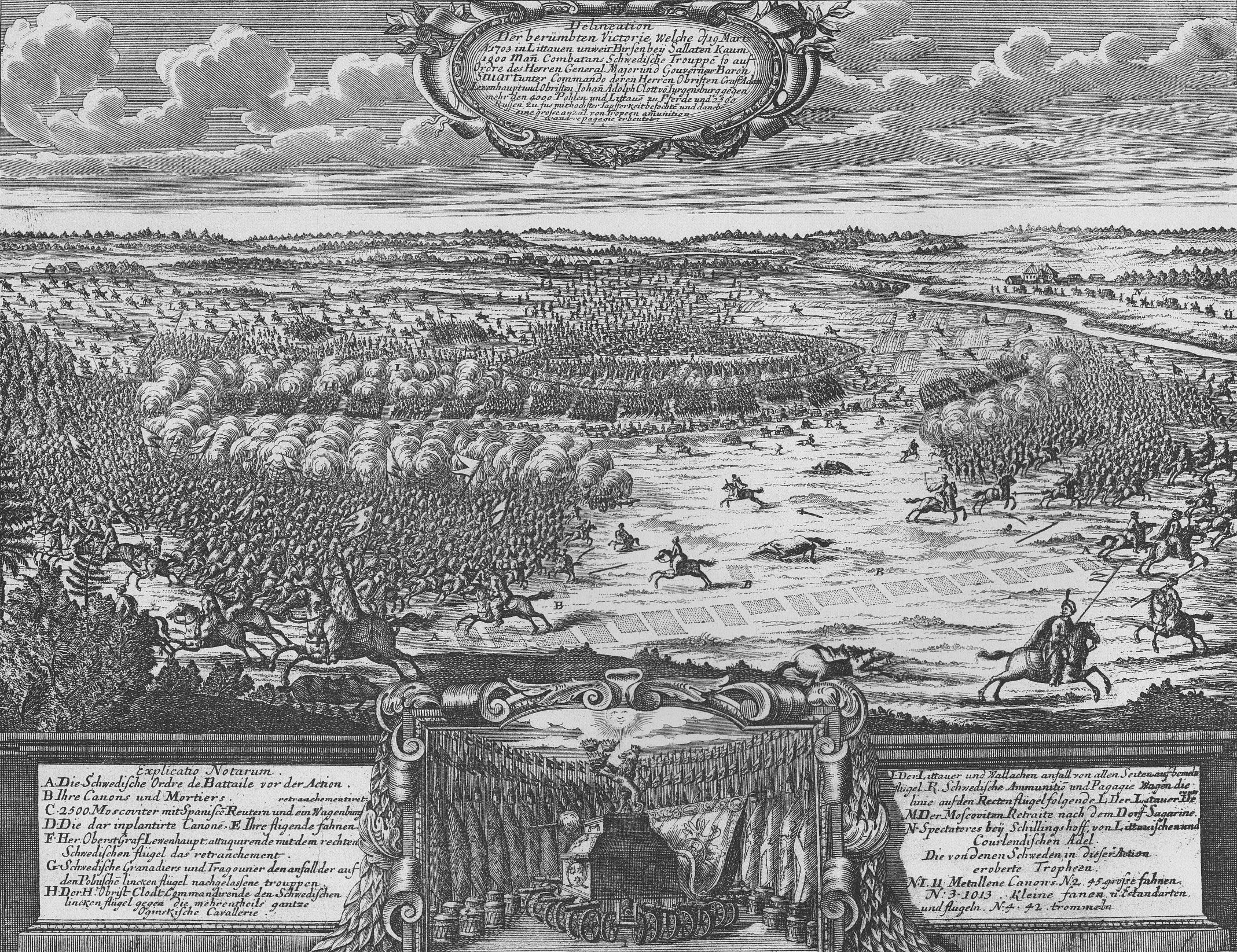 Battle of Biržai in 1703